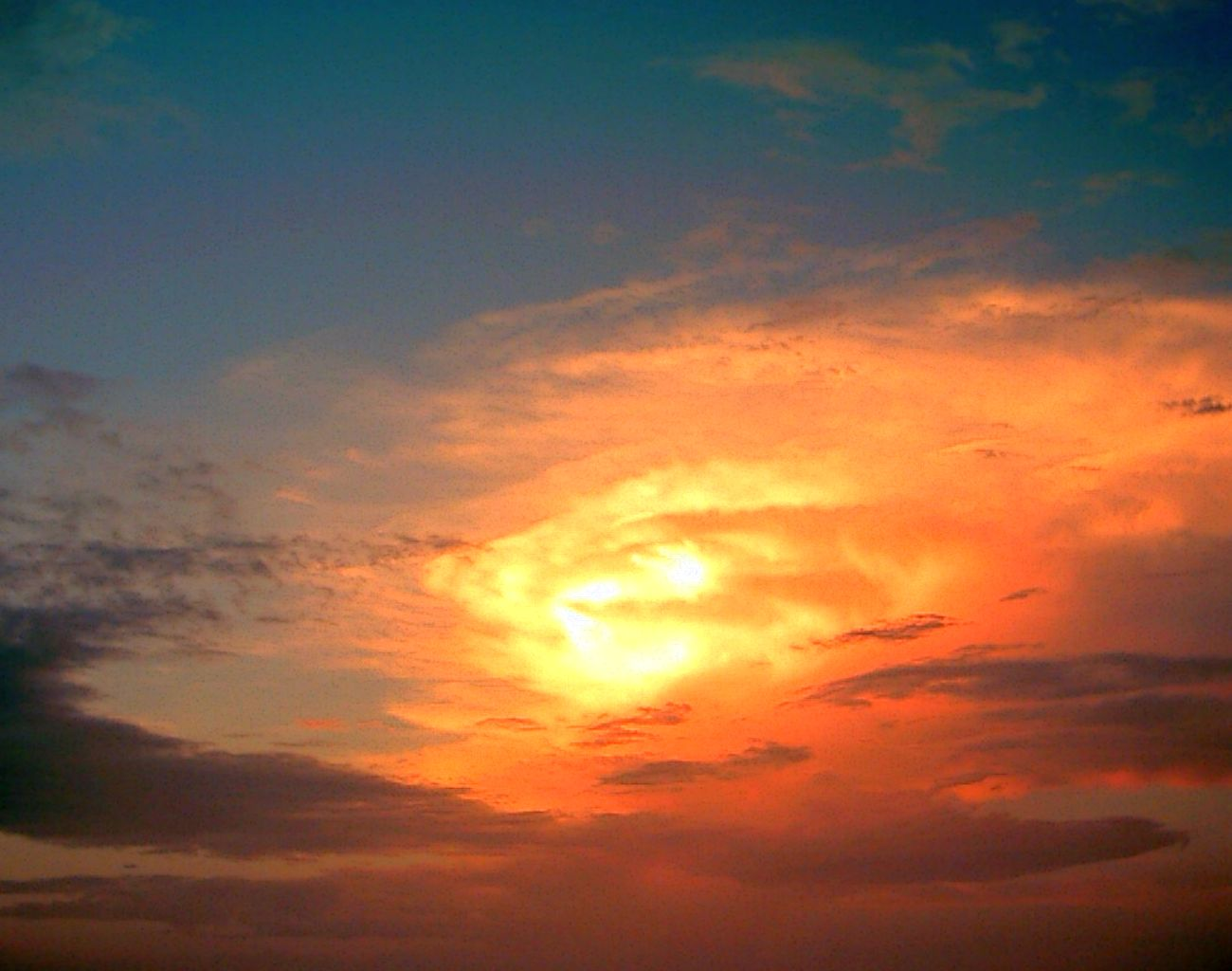 Orange sunset; colors of the atmosphere at crepuscule.